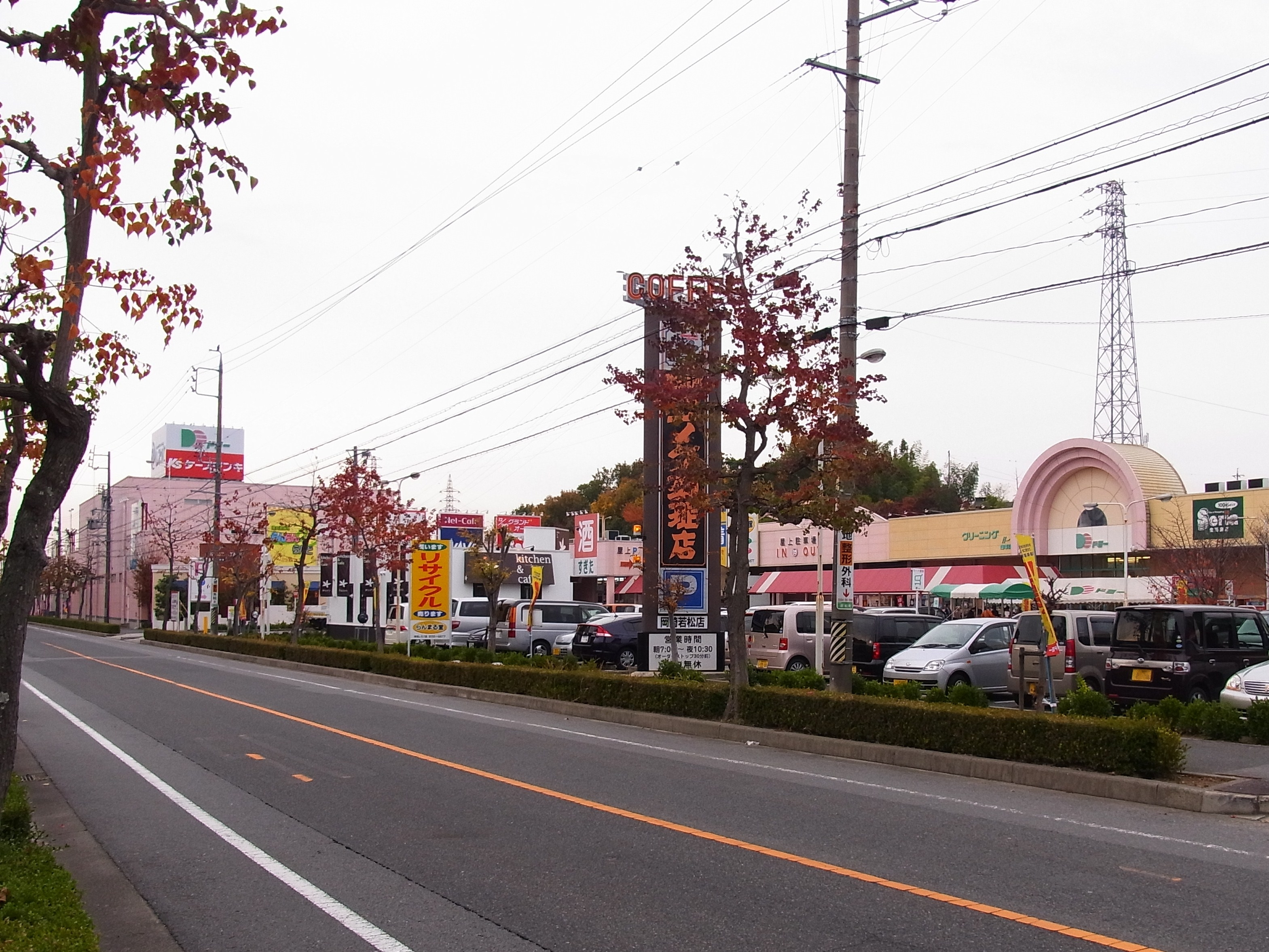 Resupa, which shopping center in Okazaki city, Aichi prefecture.